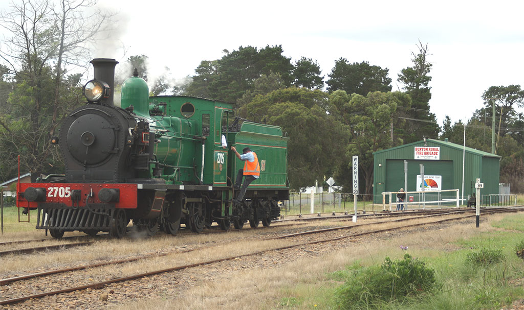 Steam locomotive 2705 operated by the NSW Rail Transport Museum at Buxton railway station. Buxton Rural Fire Service shed and railway crossing at entrance of village shown in background. Looking northwards.